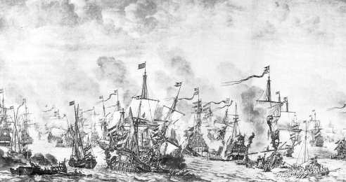 Battle of the Sound, october 29 1658